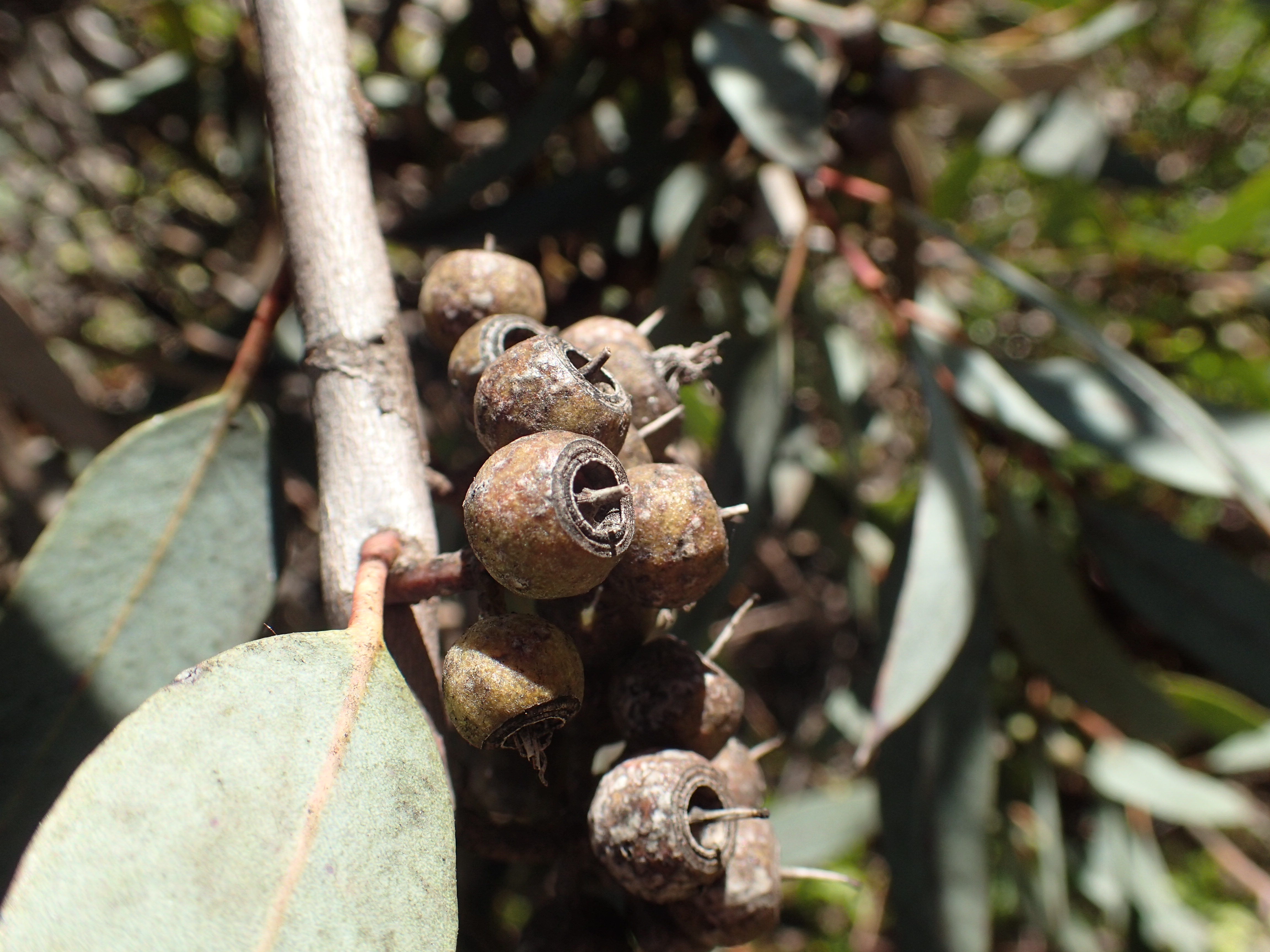 Fruit of Eucalyptus falcata in Kings Park, Perth